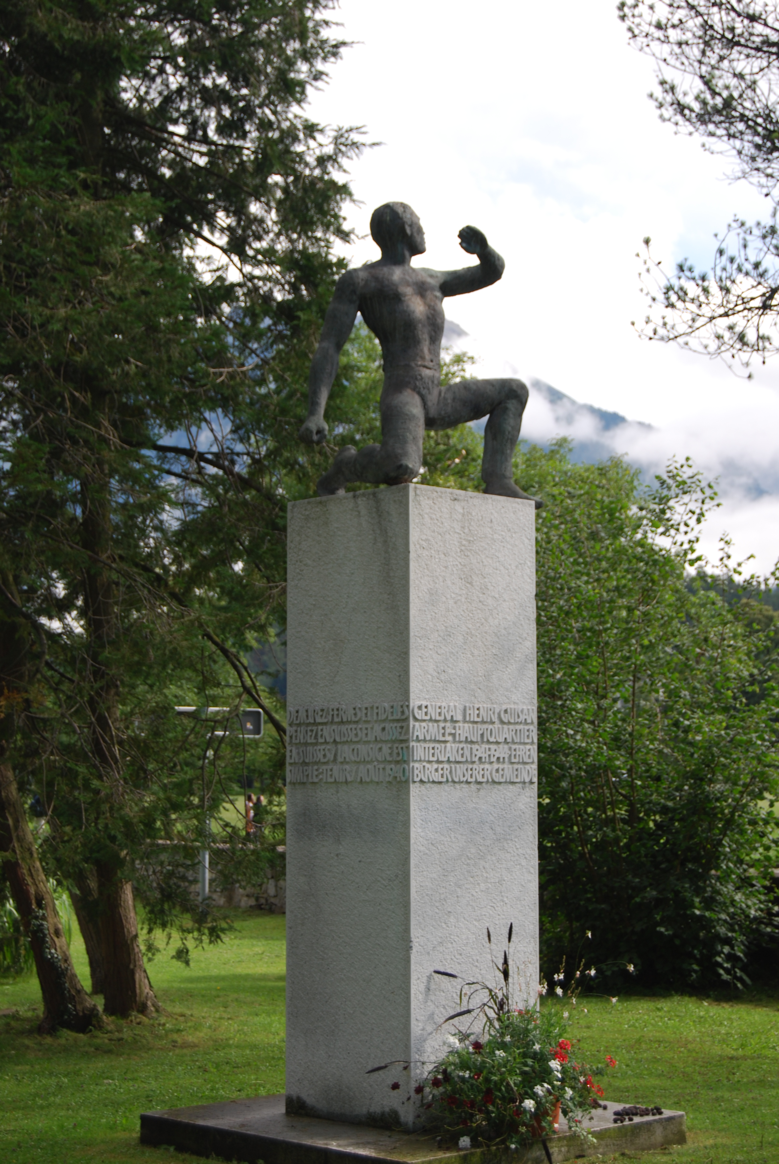 Henri Guisan monument at Schlossgarten, Interlaken, canton of Bern, Switzerland